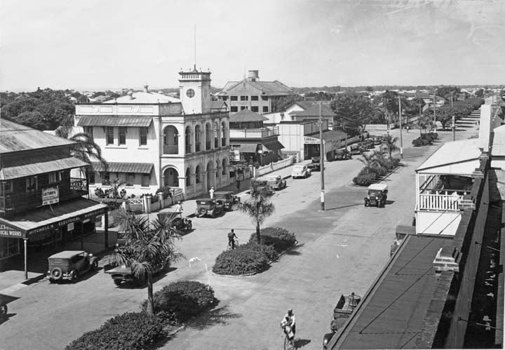 Sydney Street, Mackay, showing the Former Mackay Town Hall.